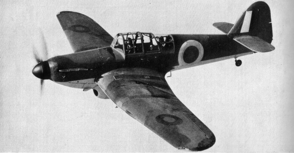 Miles M.9A Master I advanced trainer Photograph published in: Aircraft of the Fighting Powers Vol I Ed: H J Cooper, O G Thetford and D A. Russell Harborough Publishing Co, Leicester, England 1940. Photographer not identified, so UK Copyright contended to have lapsed 50 years after publication. Picture prepared for Wikipedia by Keith Edkins in April 2004.